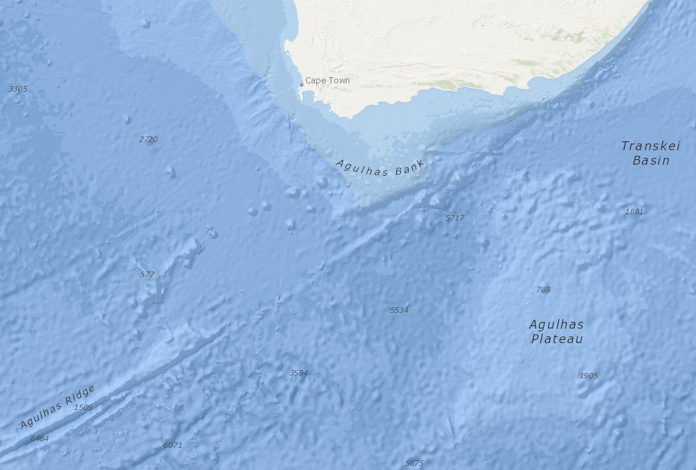 Map of the Agulhas Bank, Ridge, Basin, and Plateau south of Africa.